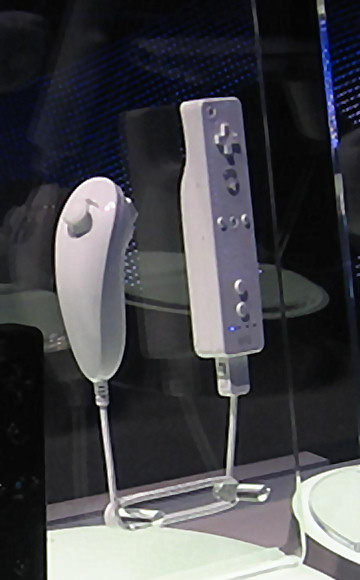 Nintendo's Wii Remote in Nunchuk Style as it was shown at E3 2006.